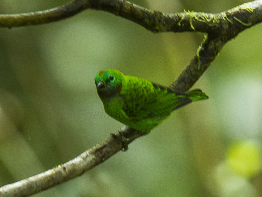 Orange-eared Tanager - South Ecuador_S4E0690